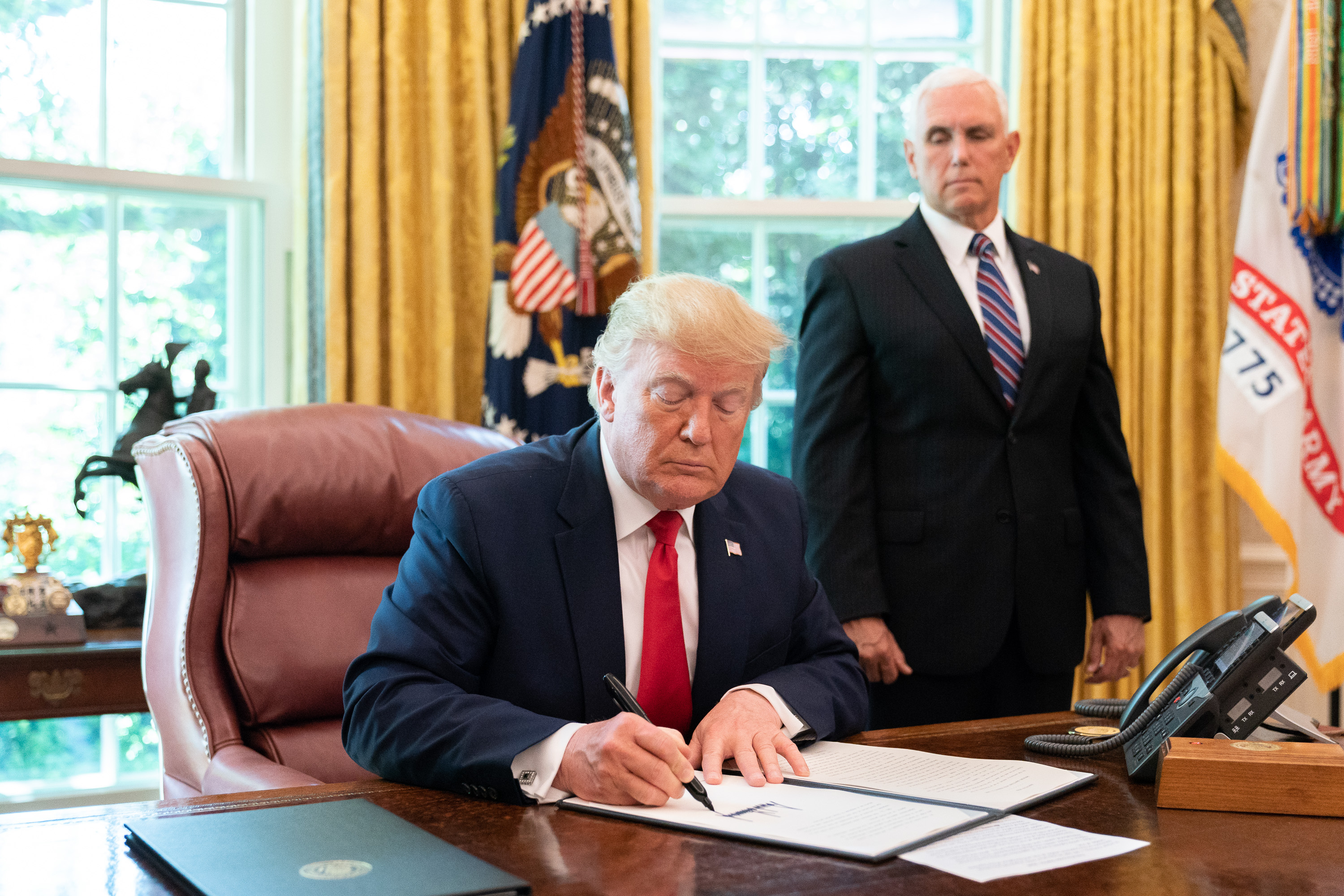 President Donald J. Trump signs an Executive Order to place further sanctions on Iran Monday, June 24, 2019, in the Oval Office of the White House. (Official White House Photo by Joyce N. Boghosian)